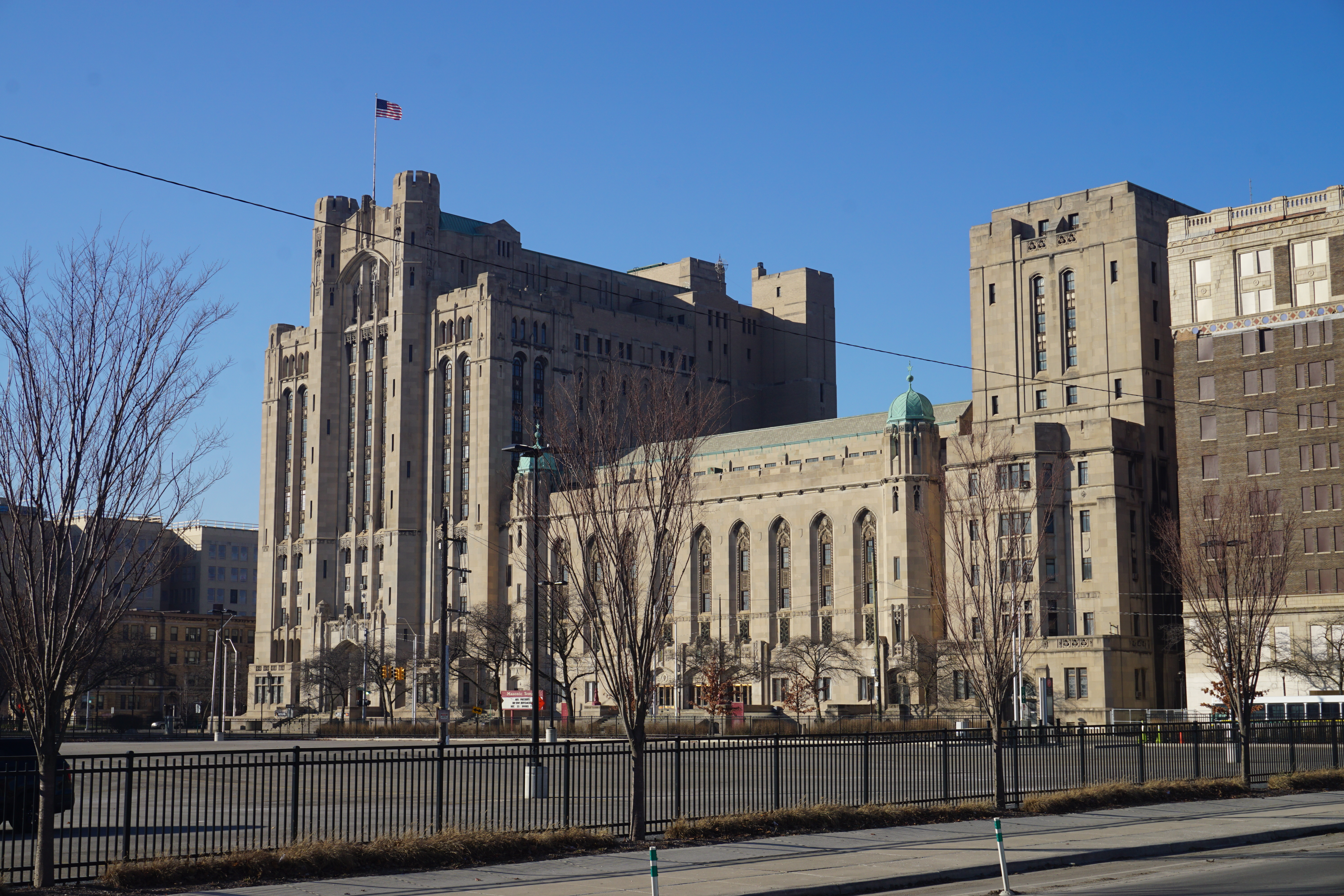 The Detroit Masonic Temple in Detroit, Michigan (United States).